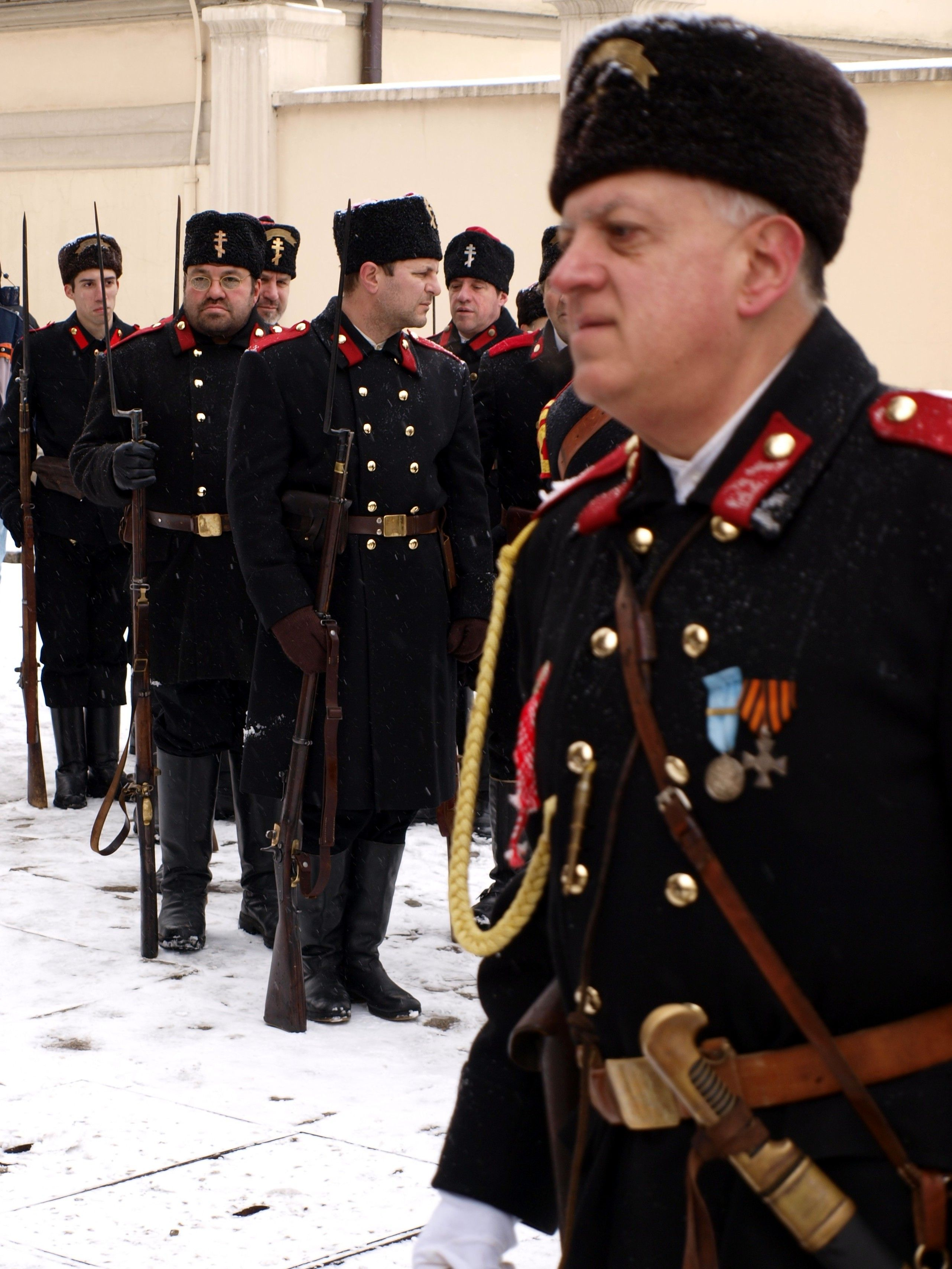 Members of the National community "Tradition" in uniforms of the Bulgarian resistance (in Bulgarian:"Българско опълчение", Balgarsko opalchenie) in the Russo-Turkish war for Liberation of Bulgaria (1877-1878) at the official commemoration of the 133-th anniversary from the Liberation of Bulgaria in Sofia (historical reenactment).